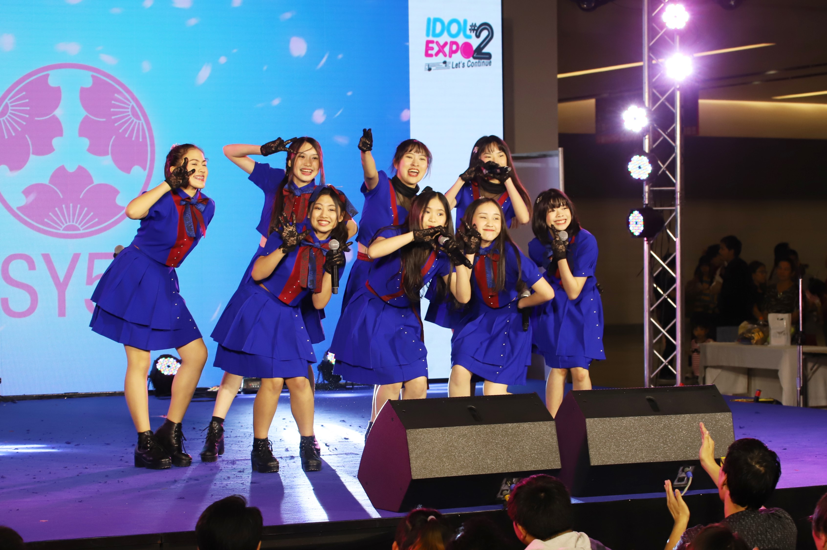 SY51 Performance in Idol Expo #2 Bangkok, Thailand.